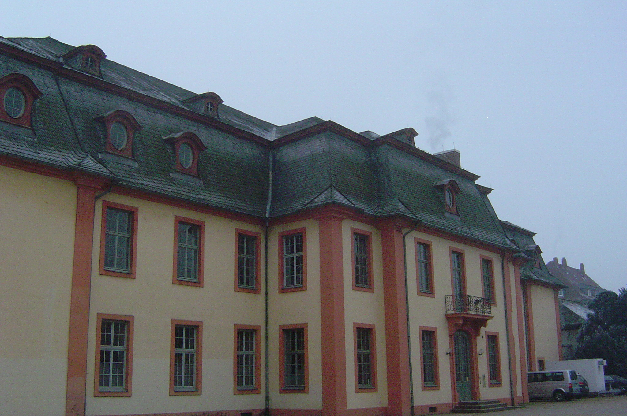 Orangerie in Darmstad - northern facada